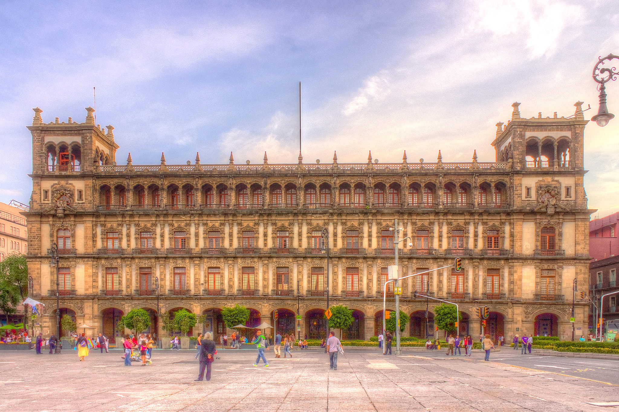 500px provided description: Taken in the Mexico City, year of 2015. [#hdr ,#city ,#mexico ,#500px ,#town ,#photography ,#hall ,#traditional ,#colonial ,#2015]